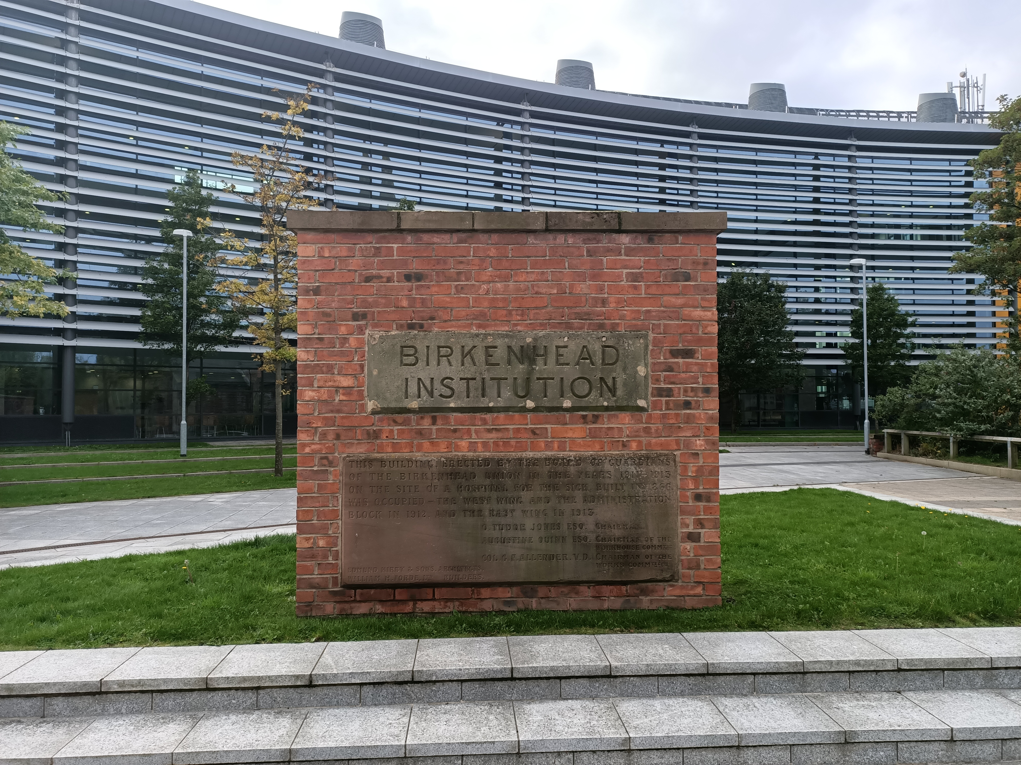 The original entrance sign for the Birkenhead Institution, now St Catherine's Medical Centre, erected 1913. The sign was left standing during the 2013 renovation of the medical centre.